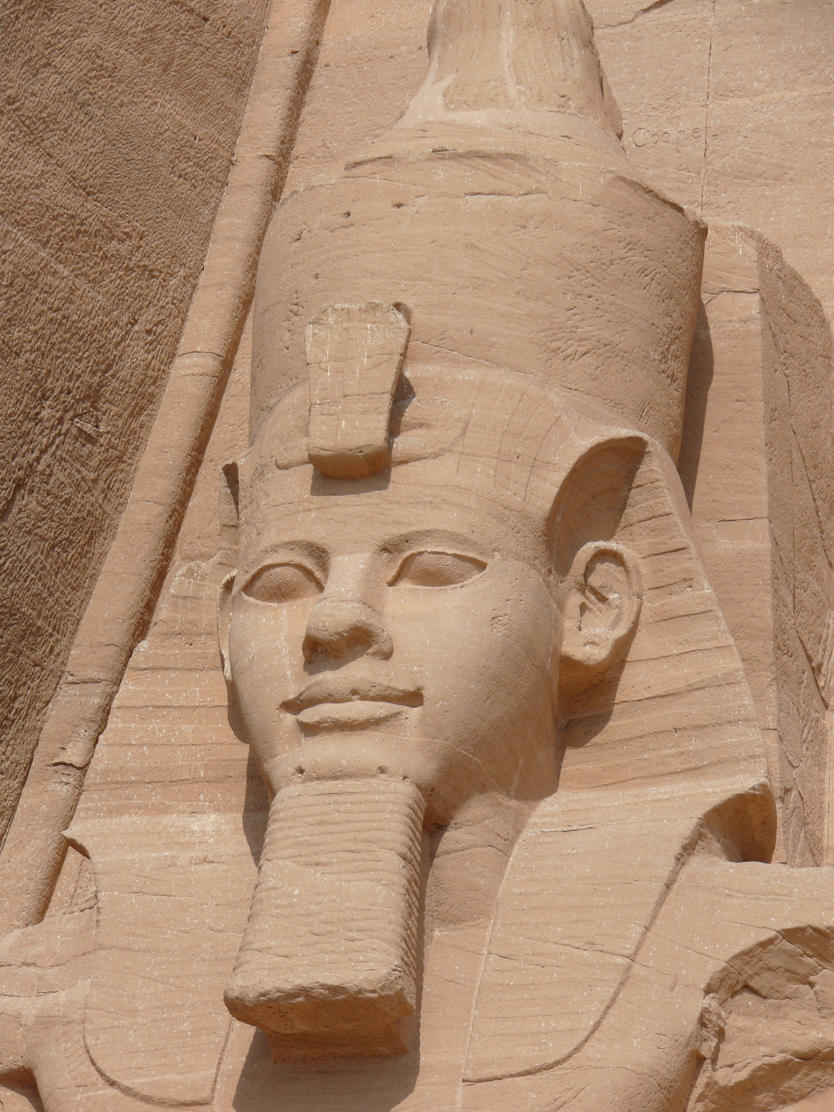 Abu Simbel - Great Temple of Ramesses II, close-up of one of the colossal statues of Ramesses II, wearing the double crown of Lower and Upper Egypt